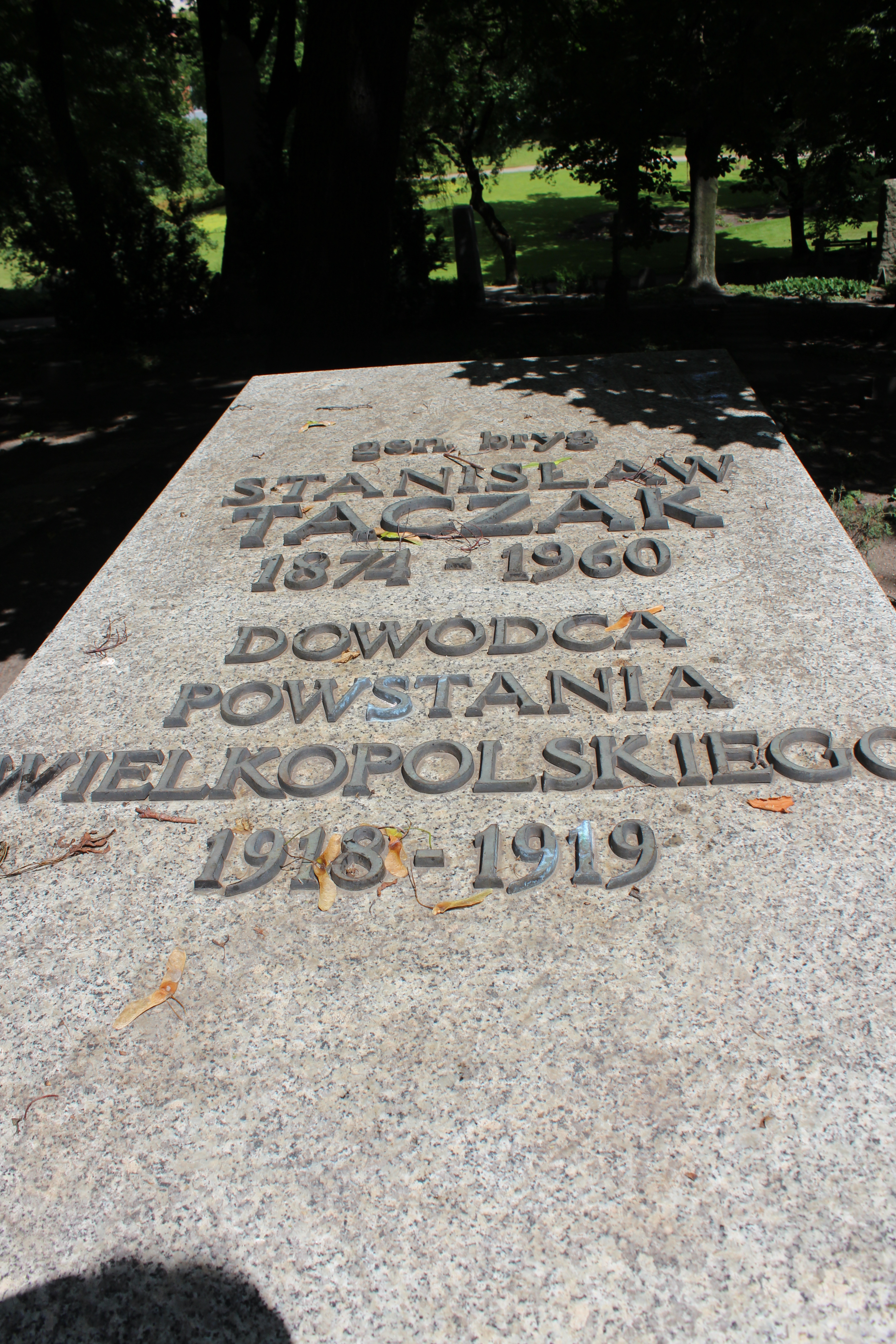 tomb of general Stanislaw Taczak commander-in-chief of the Great Poland Uprising